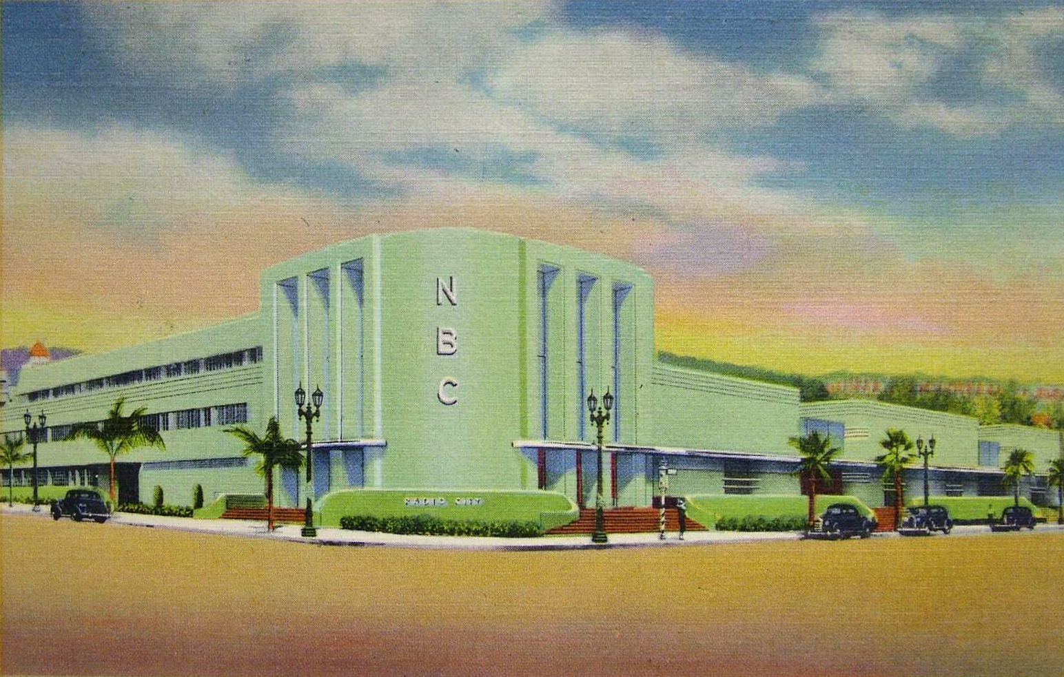 Postcard 8A-H3107. Reverse text: NBC's Hollywood Radio City, in the heart of Hollywood at the corner of Sunset and Vine, is broadcasting headquarters for many outstanding stars of radio. Inspection of studios, giant control room and other "behind the scenes" of radio, is available to the general public.